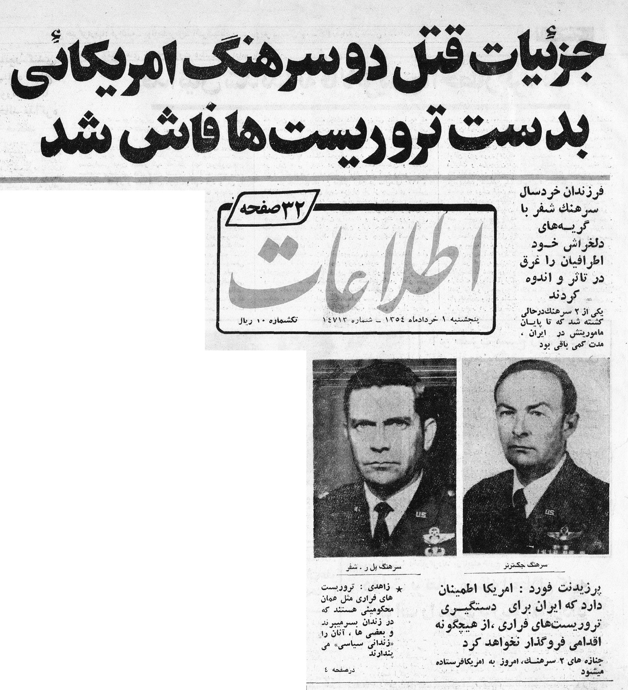 Ettela'at newspaper covering assassination of US Air Force Col. Jack H. Turner and Col. Paul R. Shaffer. Headline: "Details of Murder of two American Colonels were Revealed by the Terrorists".